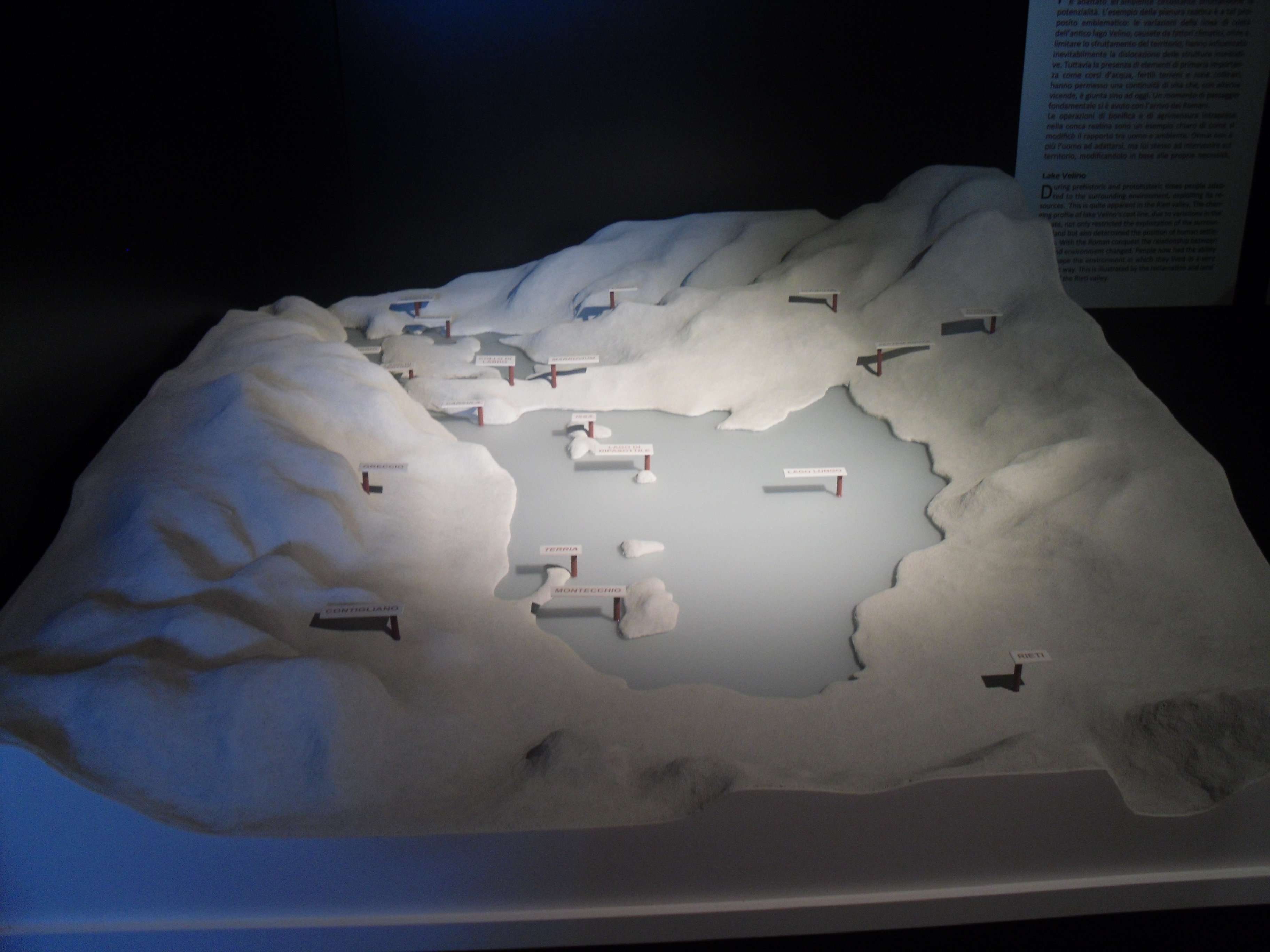 Plastic model showing the extension of the ancient Velino lake. Archaeologic museum of Rieti, Italy.